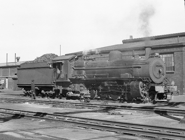 SAR Class 11 933 (2-8-2)Ex CSAR 721Location: Sydenham depot